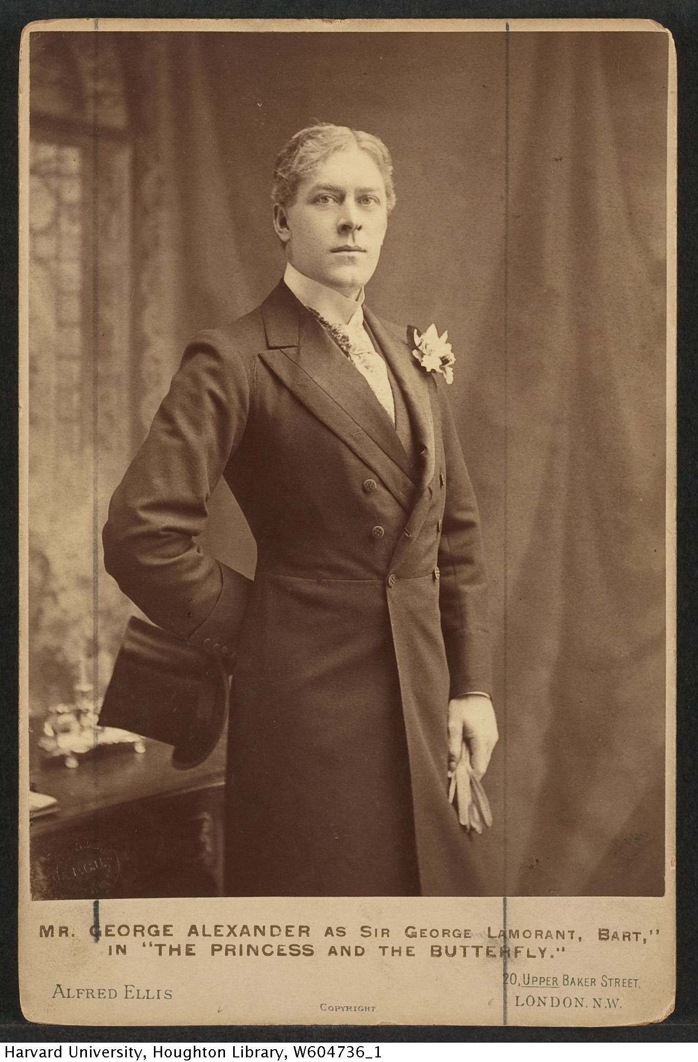 Cabinet card image of English actor and producer George Alexander (1858-1918), in character as Sir George Lamorant in The Princess and the Butterfly, first staged in 1897. TCS 1.294, Harvard Theatre Collection, Harvard University